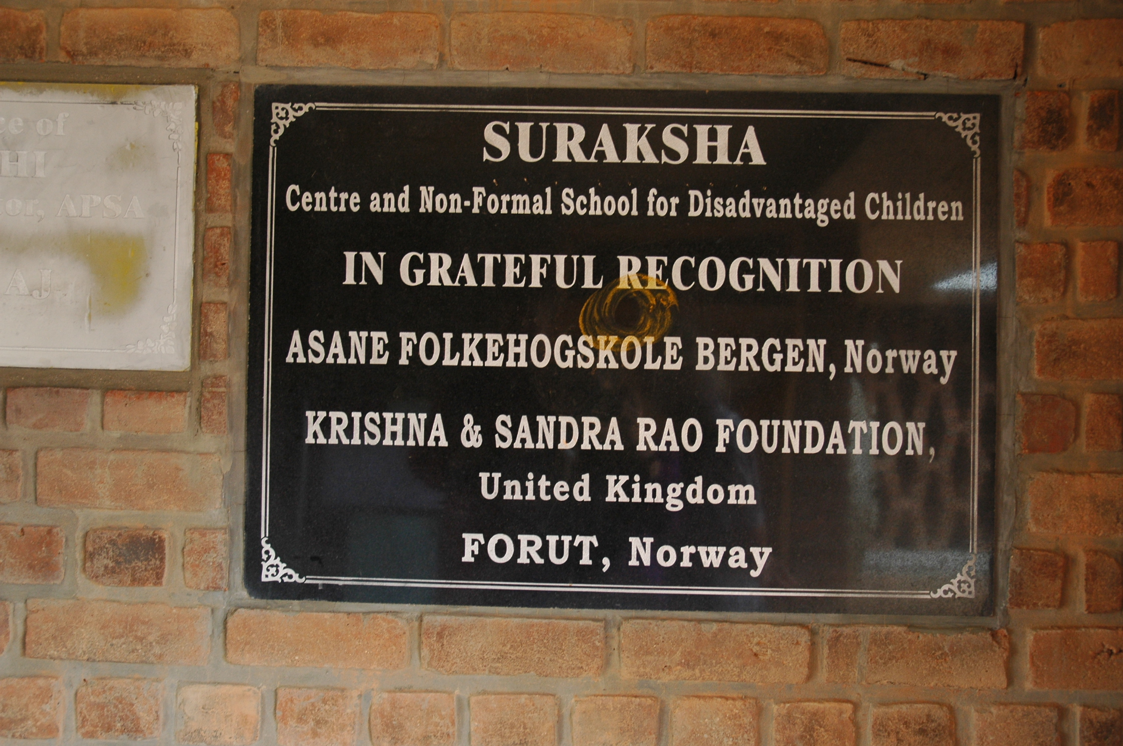 The plaque that decorates the wall at the Suraksha center.